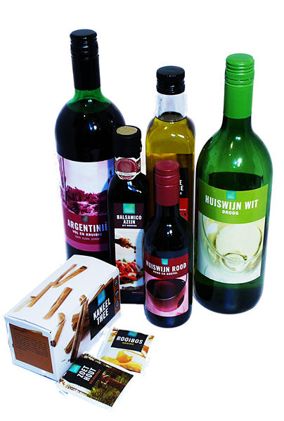 Own brand packaging of supermarket chain "Super de Boer".